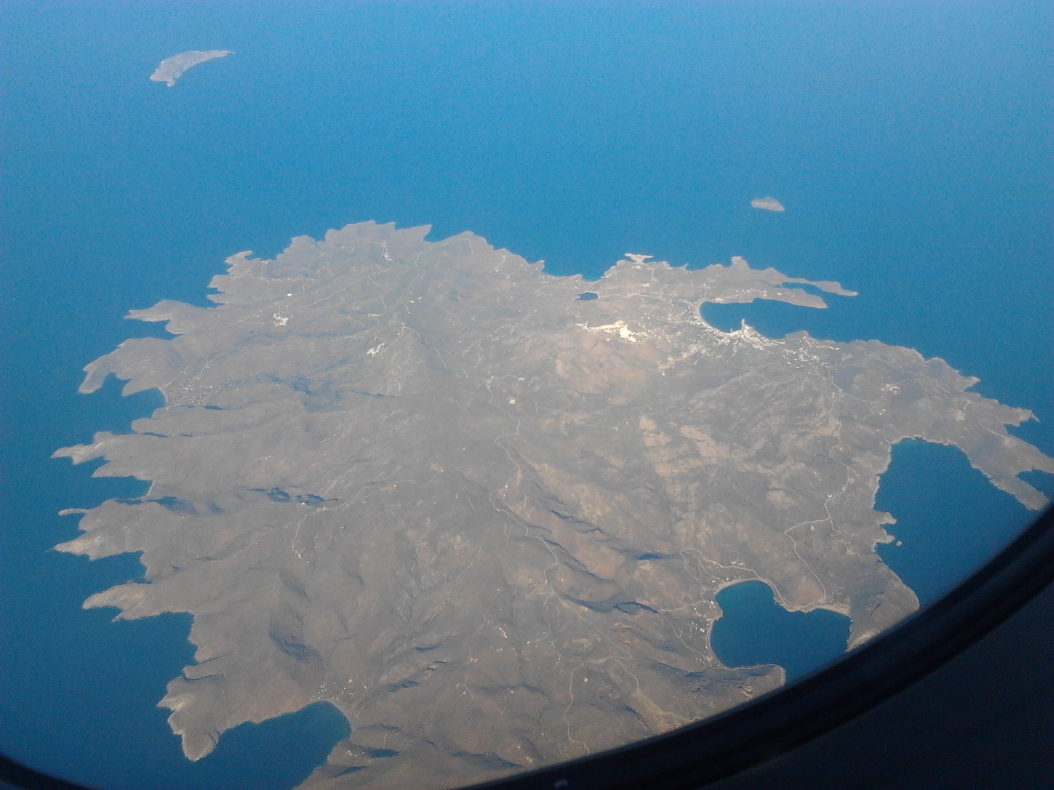 The island of Serifos as seen from above.